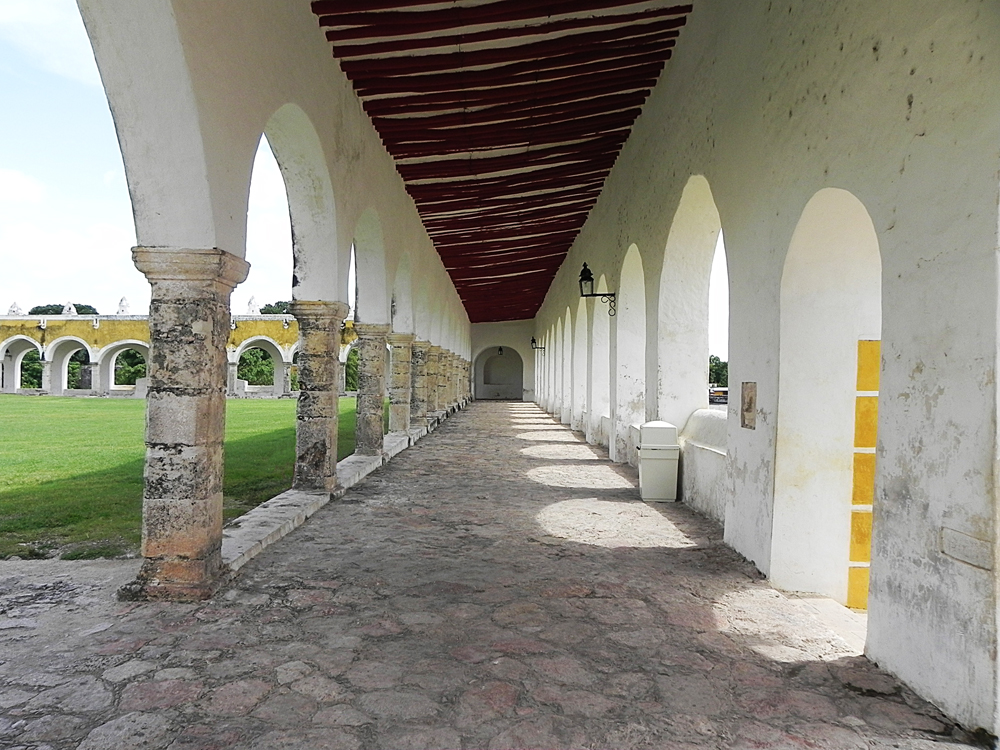 Convento De San Antonio De Padua - Portico